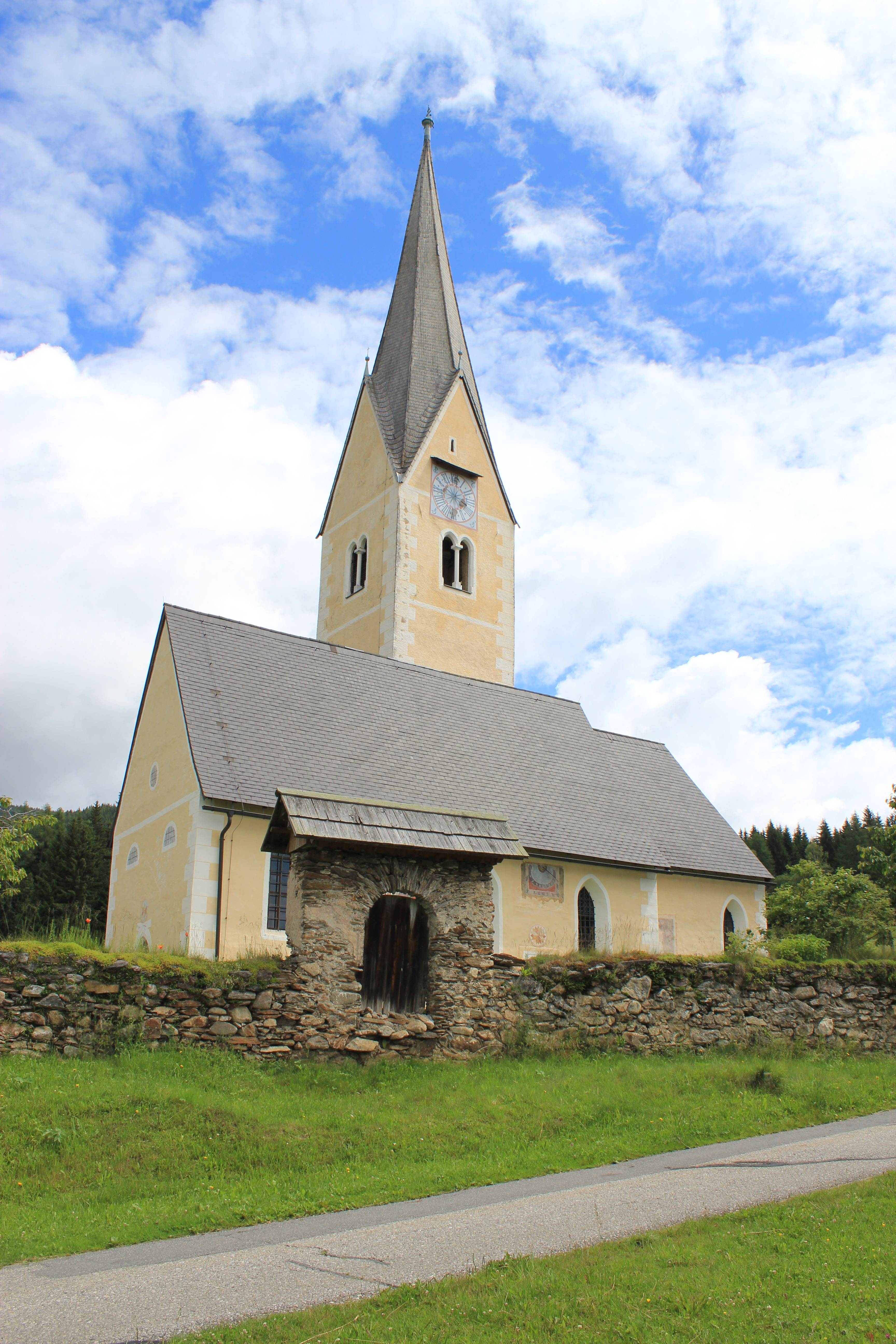 Church in Oberwöllan in the community ofArriach